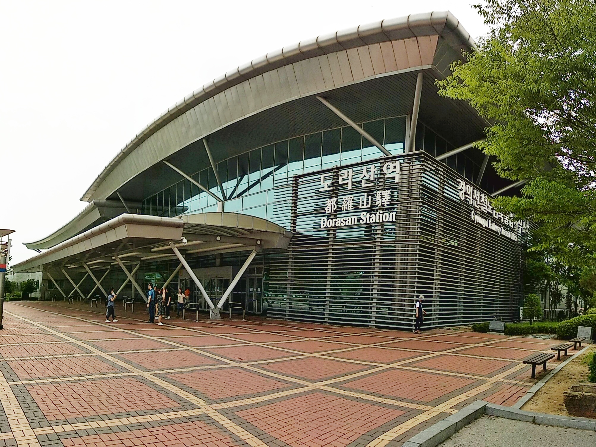 The exterior of Dorasan Station.